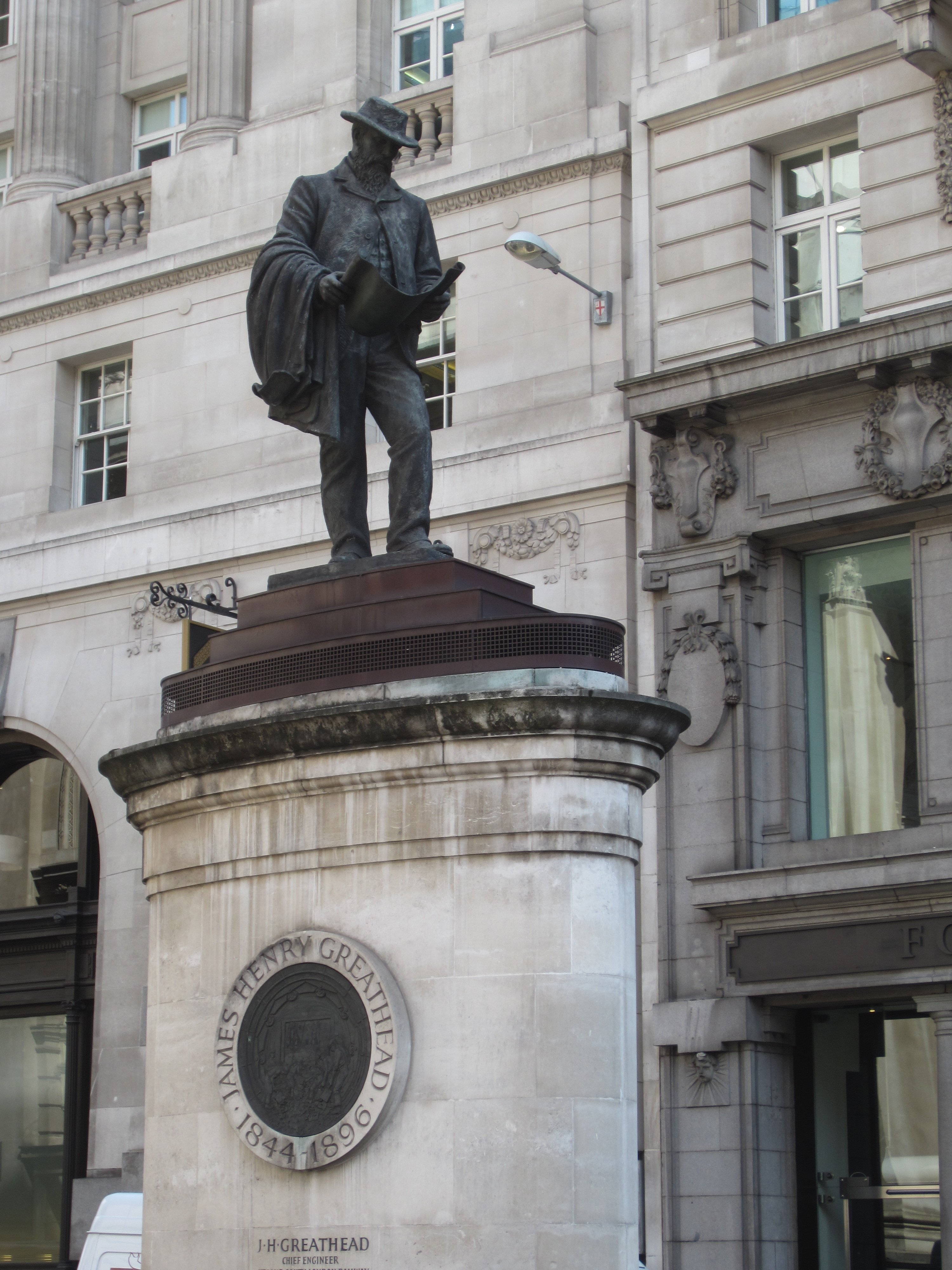 London, United Kingdom (August 2014)